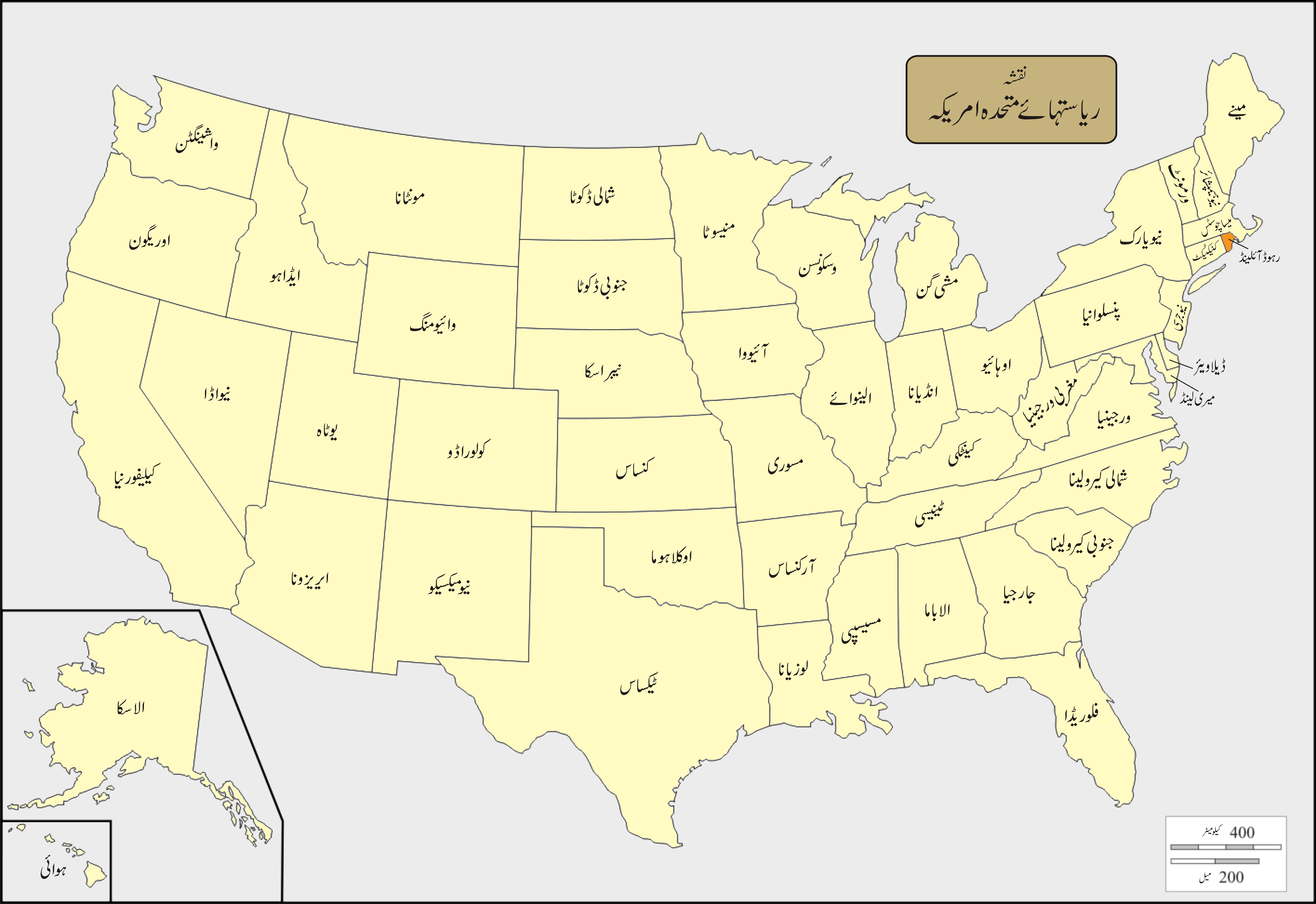 USA Names Rhode Island